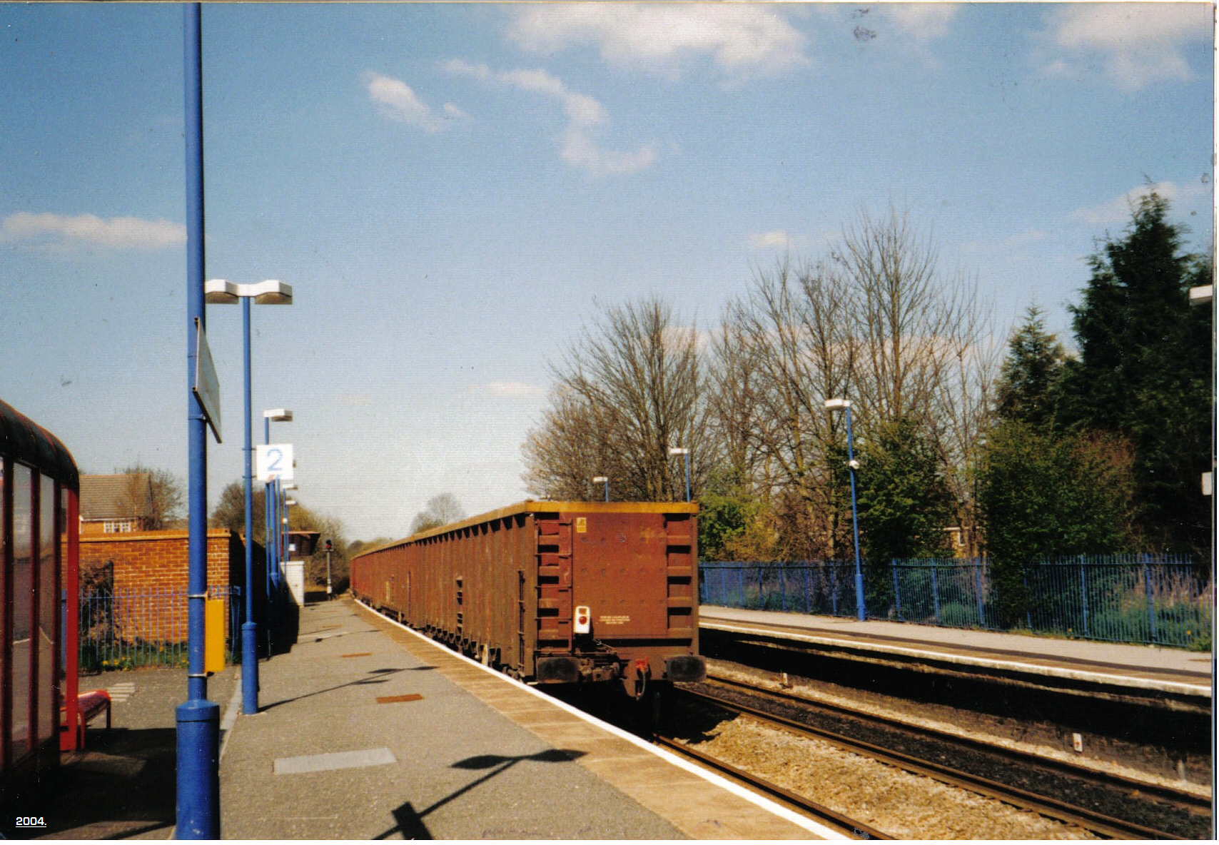 I took this picture of Saunderton station my self in the year 2004 and donate it to the public domain.